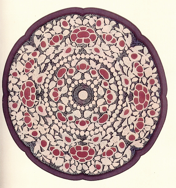 EIGHT-LOBED BRONZE MIRROR, THE MOTHER OF PER INLAY ON LACQUERED BACK (NORTH42-13), Shosoin Collection of Omperial Agency, Japan.